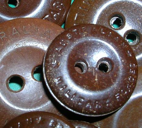 2-hole sew-throughs (AMF phenolic resin) - illustrating 2-hole sew throughs